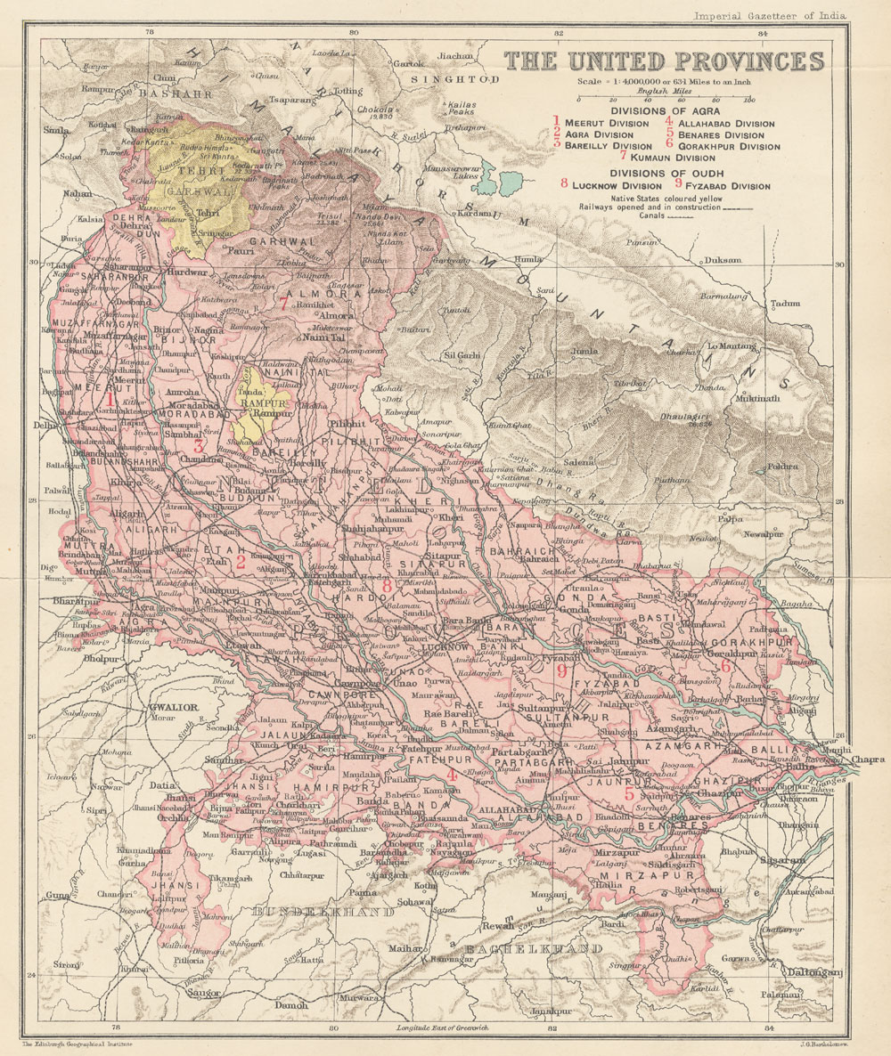 Map of United Provinces from The Imperial Gazetteer of India Volume 24, opposite page 250. New edition, published under the authority of His Majesty's Secretary of State for India in Council. Oxford: Clarendon Press, 1907-1909. Scale: 1:6,000,000. 1 in. to 94.6 miles. Divisions of Agra: 1. Meerut Division, 2. Agra Division, 3. Bareilly Division, 4. Allahabad Division, 5. Benares Division, 6. Gorakhpur Division, 7. Kumaun Division. Divisions of Oudh: 8. Lucknow Division, 9. Fyzabad Division.